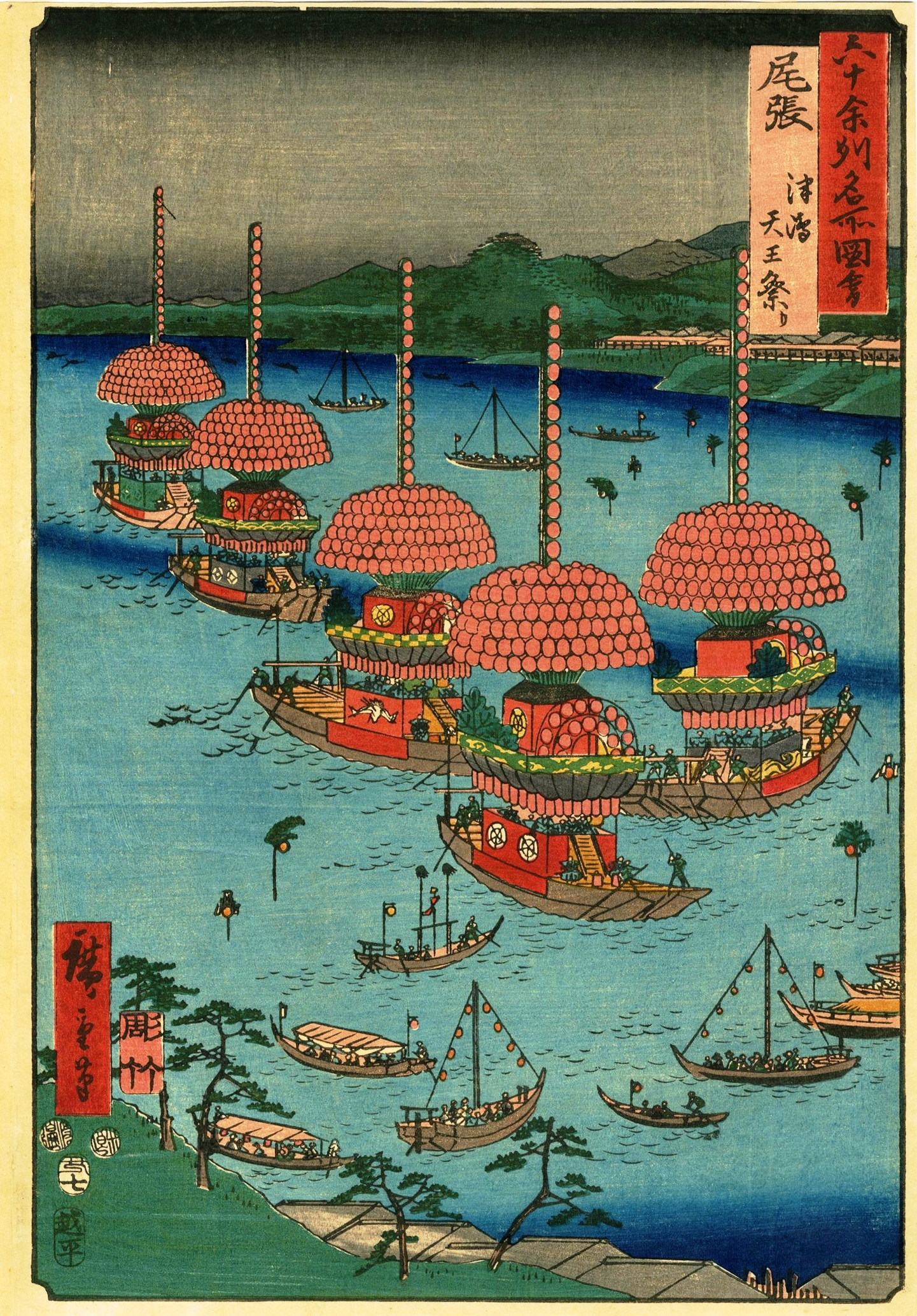 An ukiyo-e of Tsushima Tennō-matsuri,the festival of Tsushima shrine.